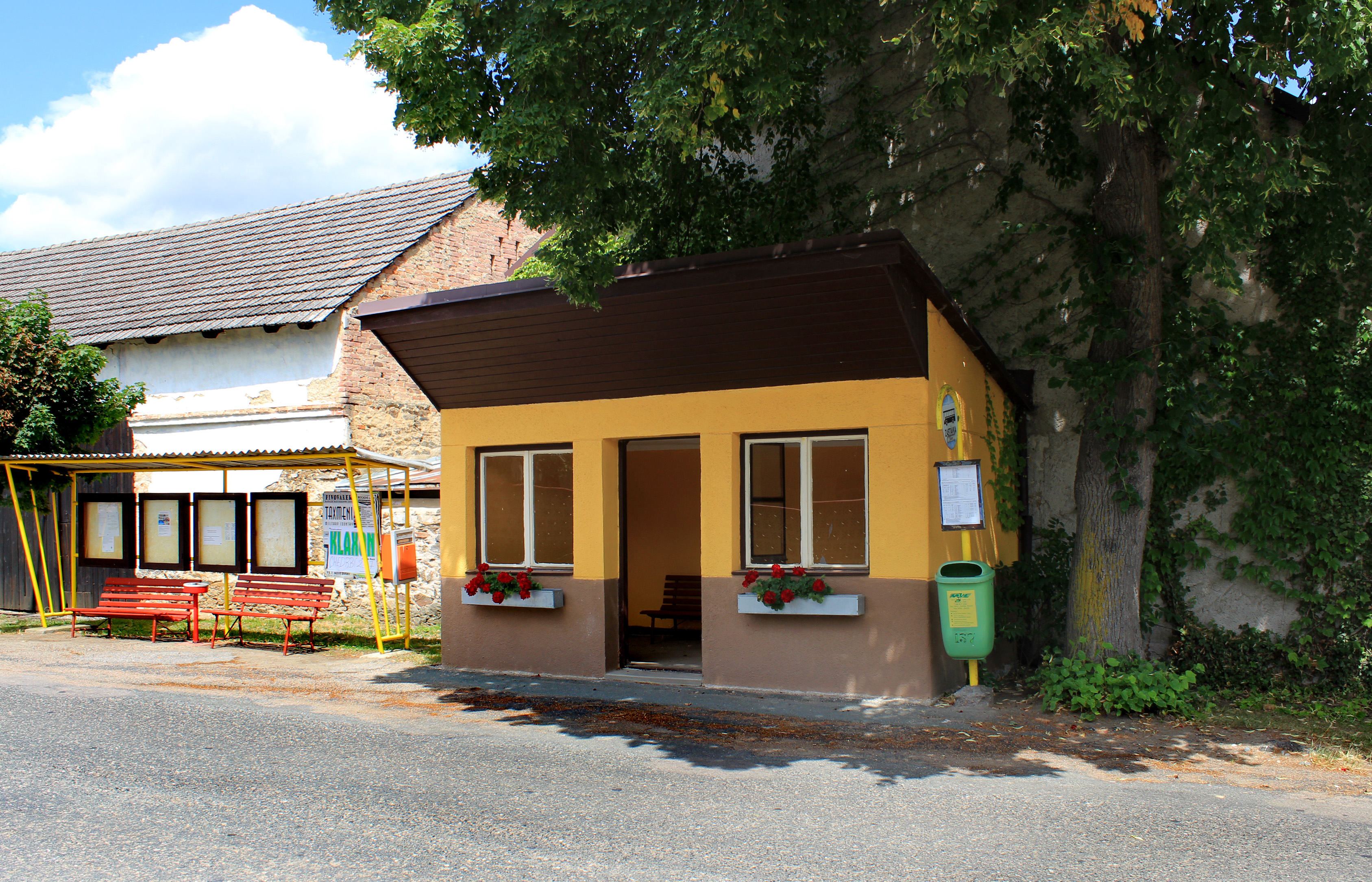 Bus stop in Souňov, Czech Republic.